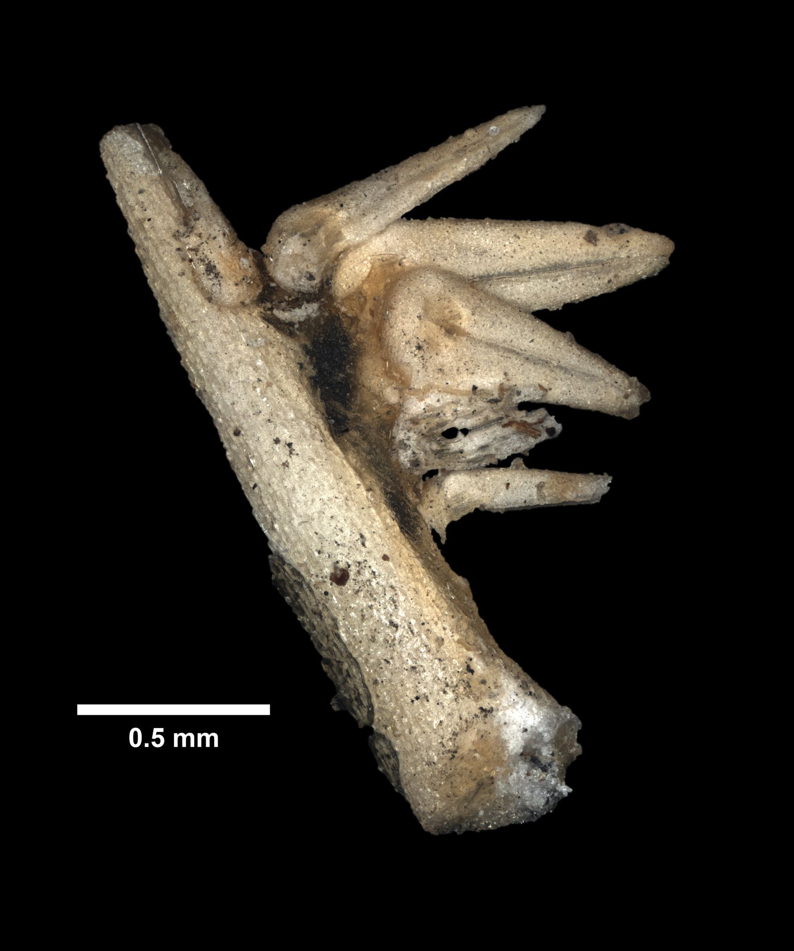 Asterias rollestoni Bell, 1881 - Preserved specimen - Dry ossicles, pedicellaria Asterias rollestoni (YPM IZ 080407). Digital Image: Yale Peabody Museum of Natural History; photo by Daniel J. Drew 2016 ; Location Country or area Japan Municipality Sagami Bay State province Kanagawa Prefecture Water body Pacific Ocean